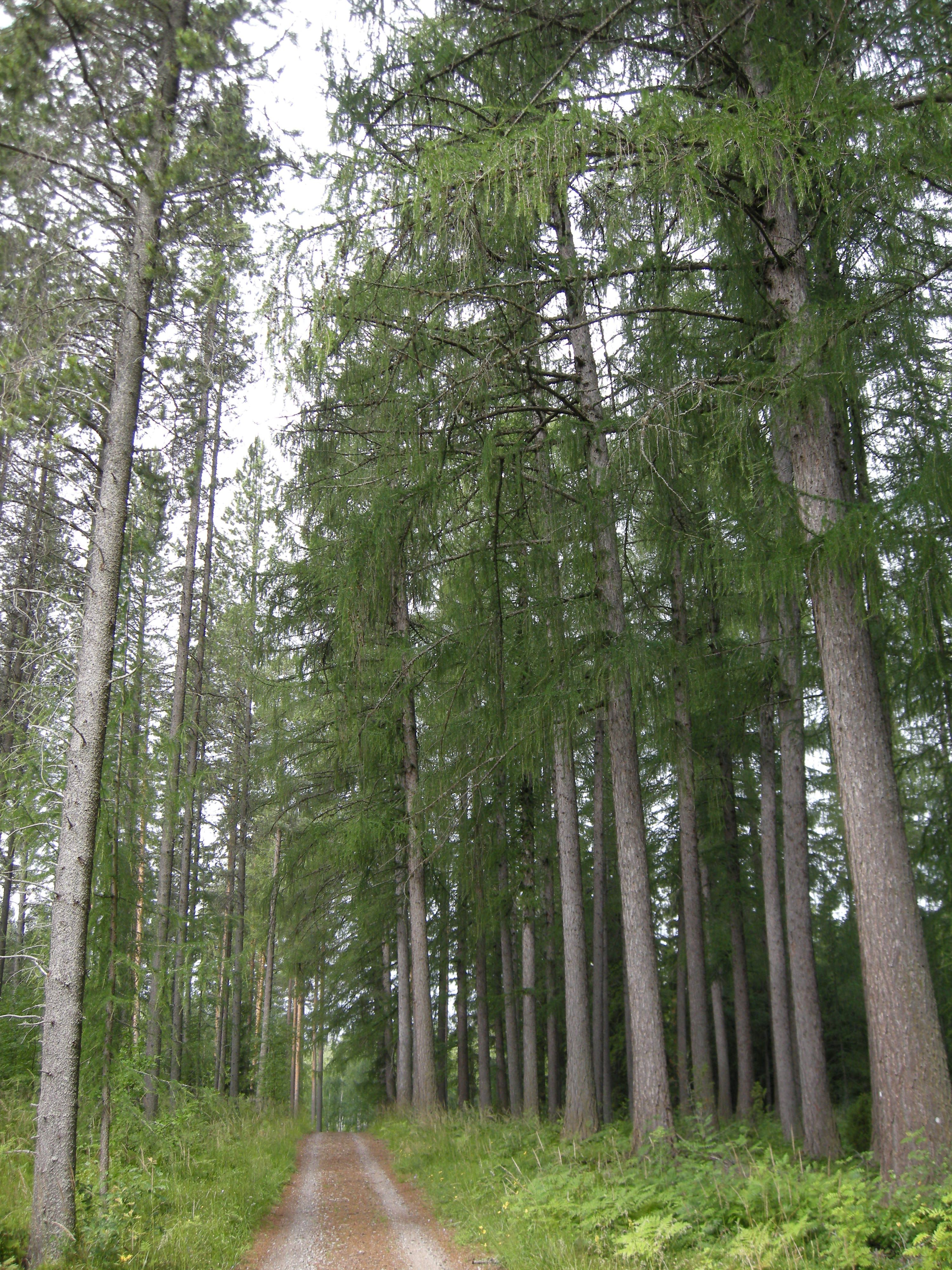 Larch in Punkaharju research forest, Finland